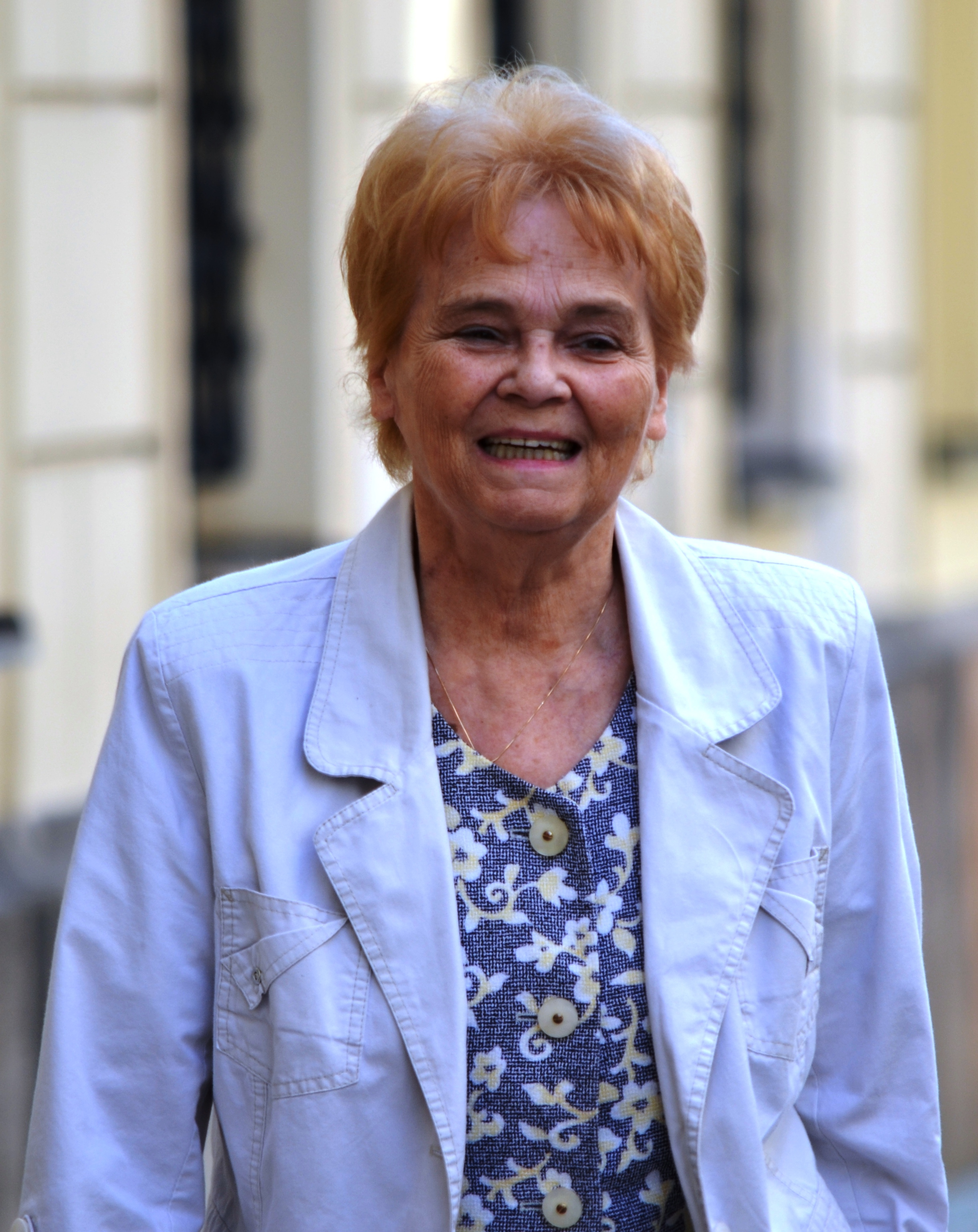 Hana Orgoníková, Member of the Parliament of the Czech Rep.